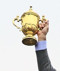 Cropped image of England rugby celebrations.